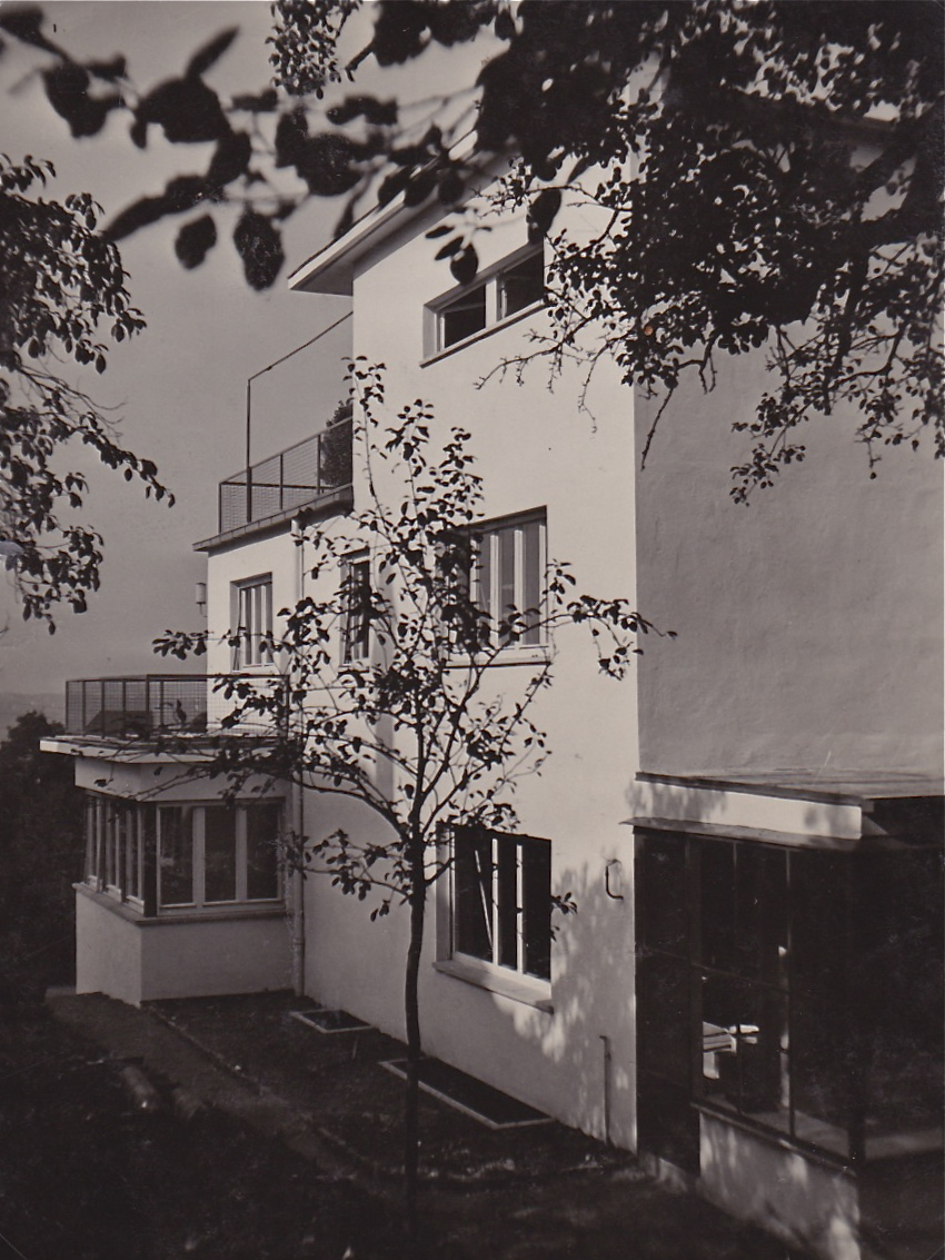 House in the Bopserwaldstraße, Stuttgart, built from the office Bloch & Guggenheimer in the Bauhaus style..